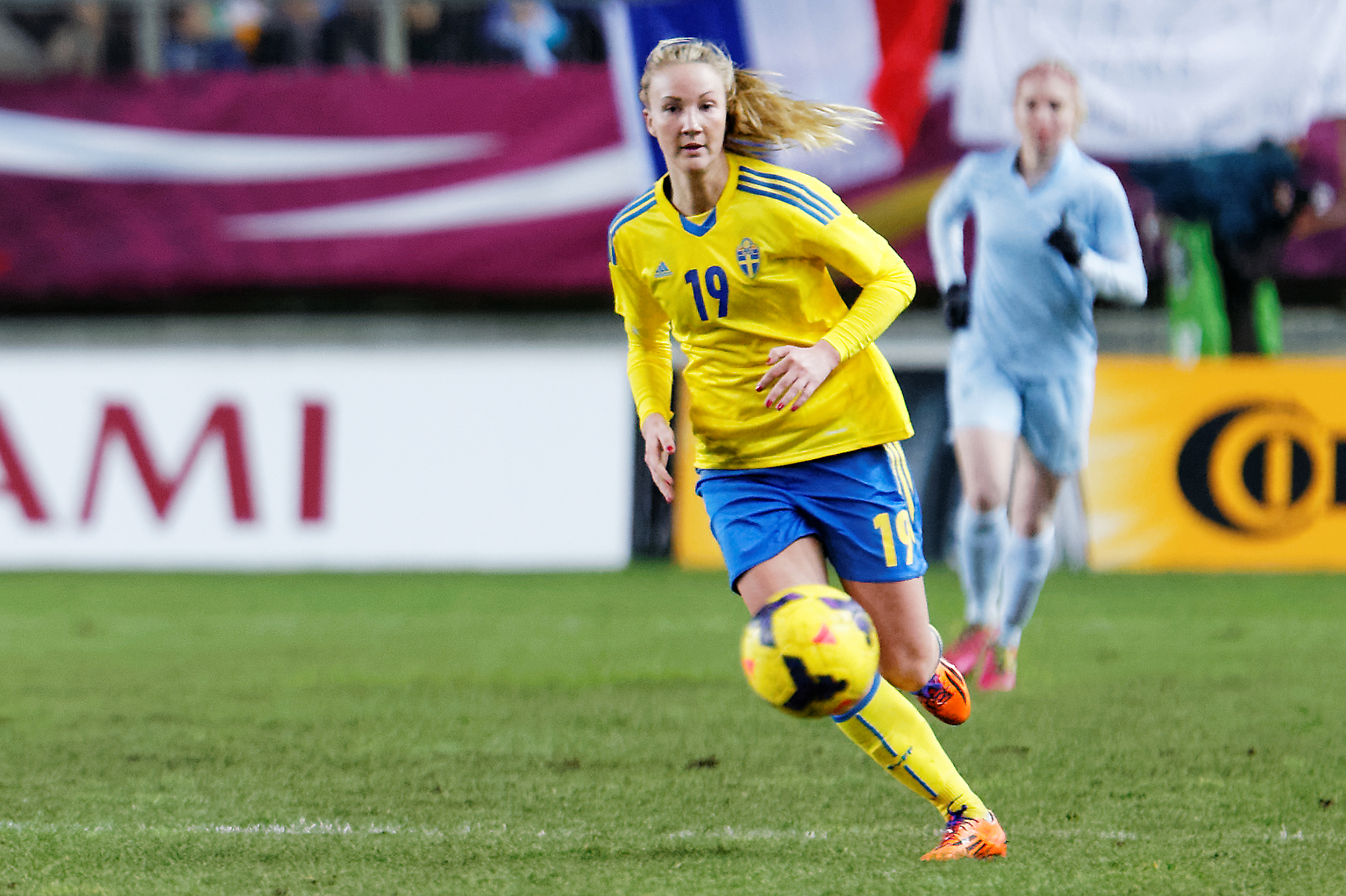 Emma lundh during France - Sweden. 2014-02-08